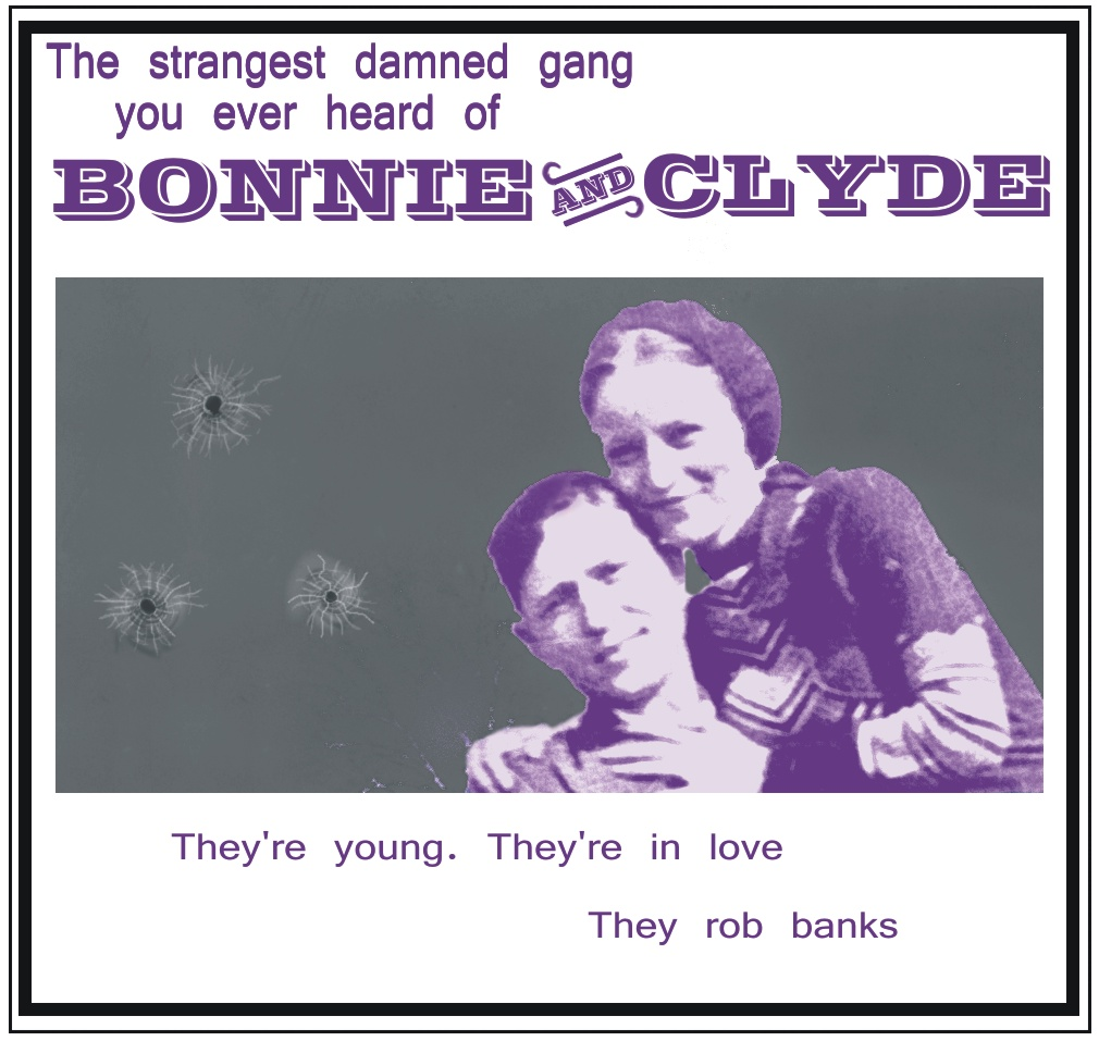 A Bonnie and Clyde in film style.